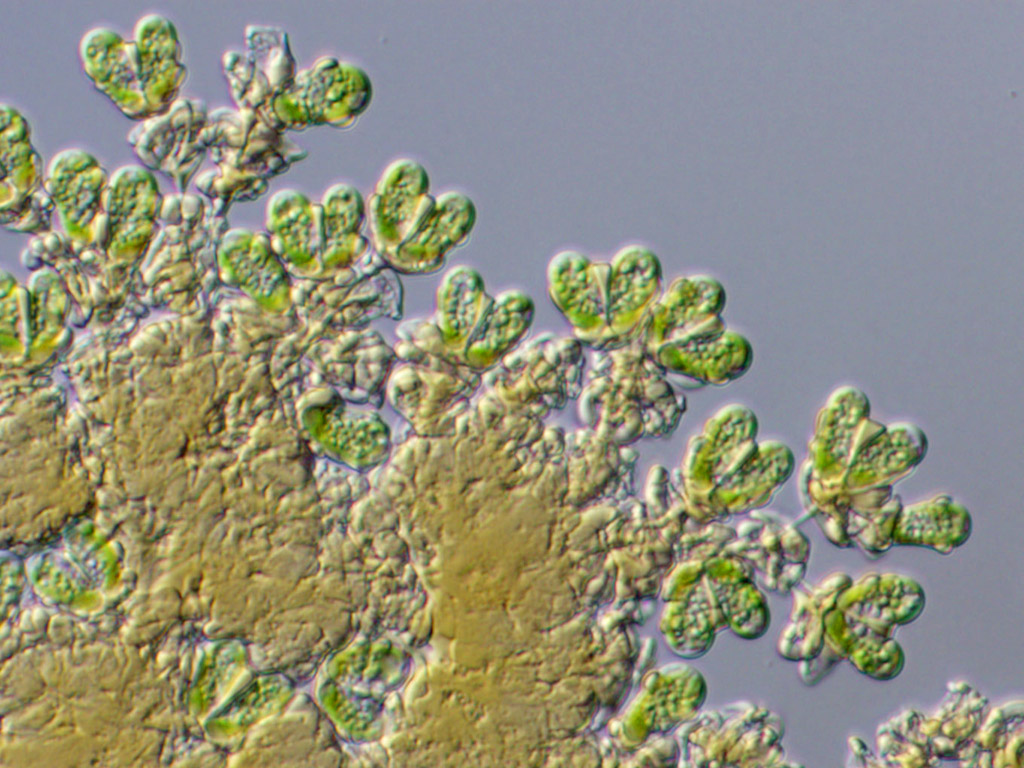 Botryococcus braunii / Olympus IX71+DP72